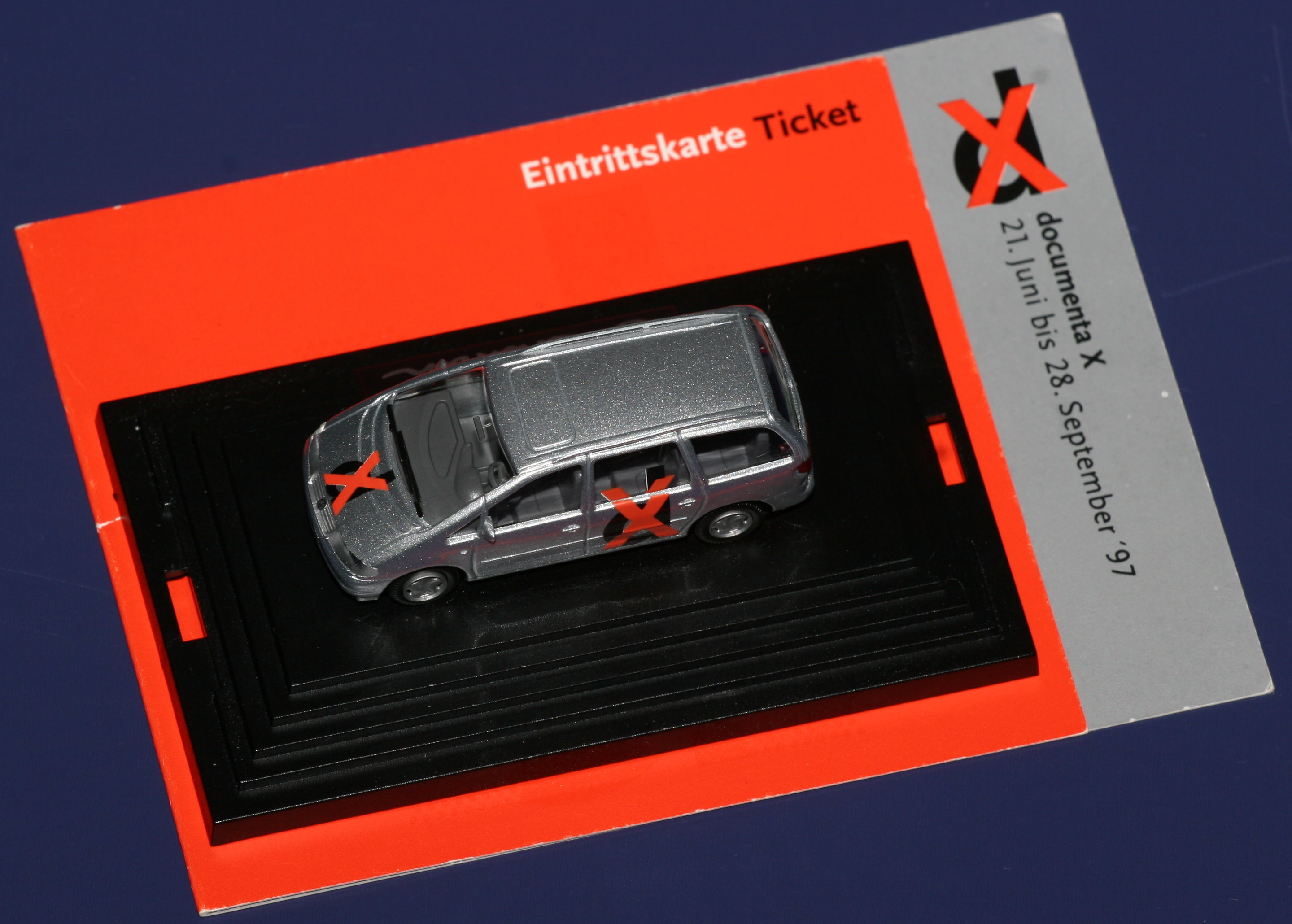 VW Sharan with documenta X signet placed on dx-ticket